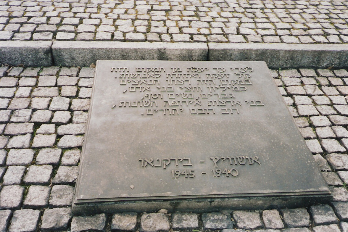 memorial plate in birkenau concentration camp